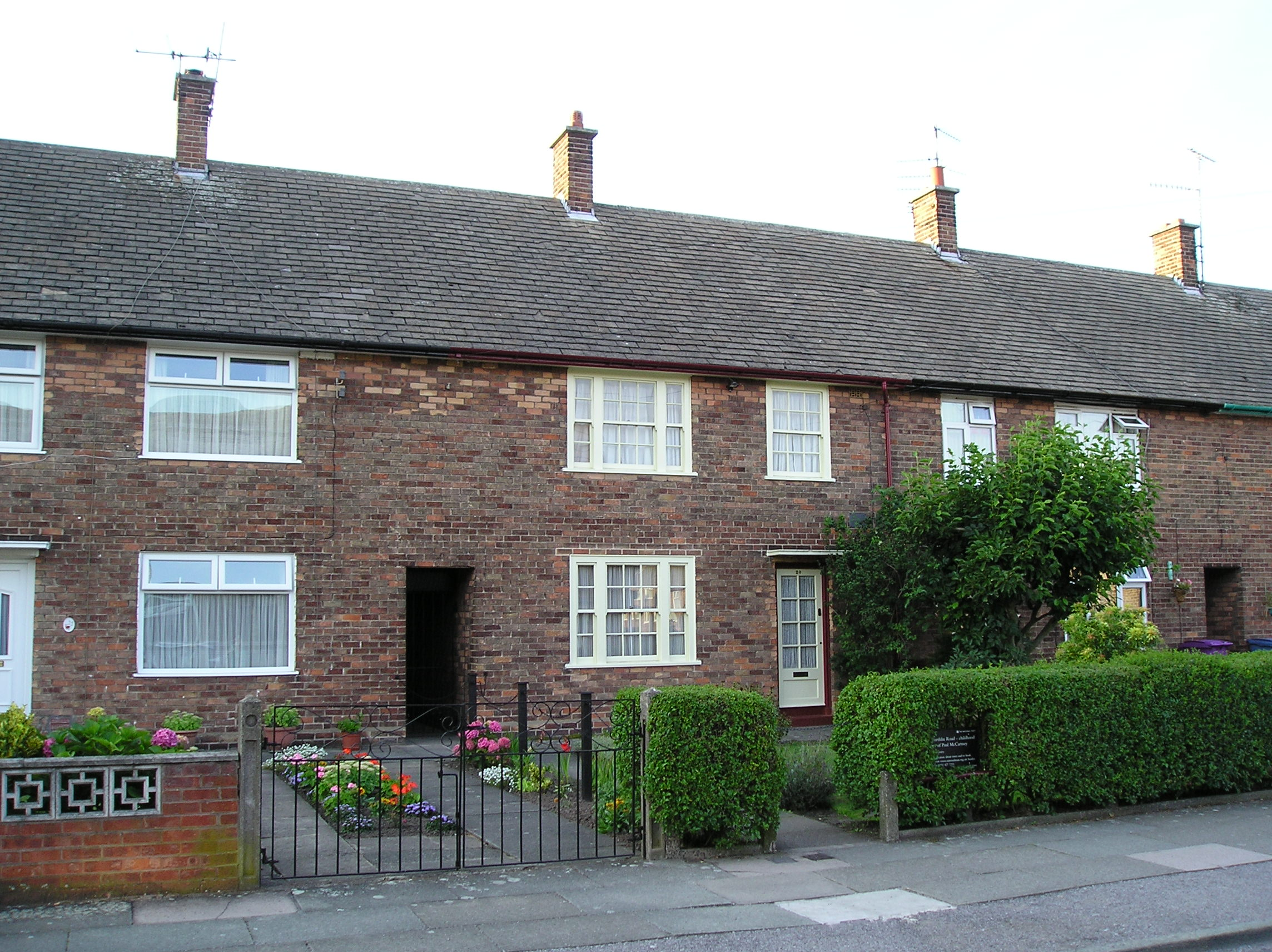 20 Forthlin Road, Liverpool L18, the childhood home of Paul McCartney.